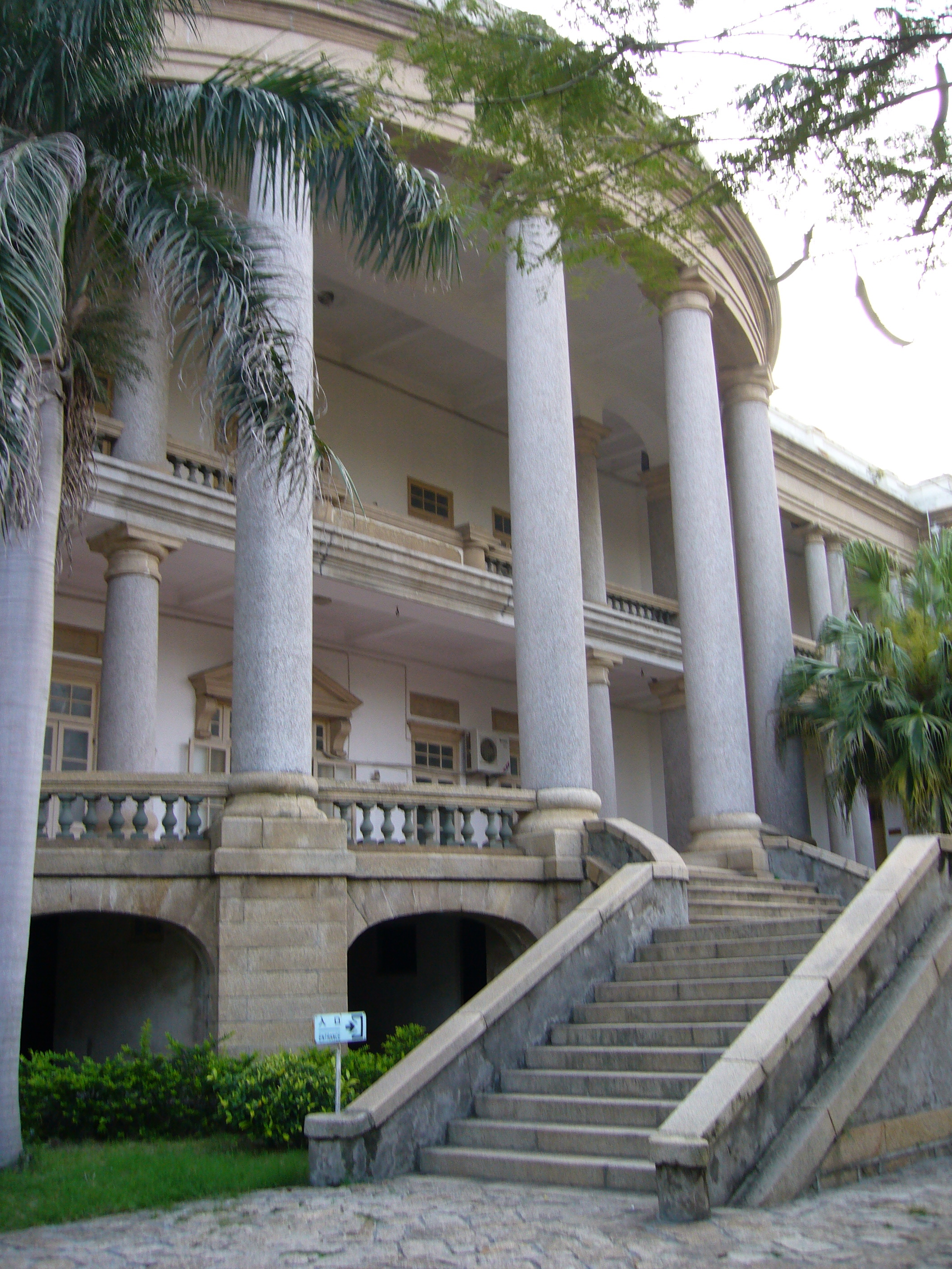 Organ Museum on Gulangyu